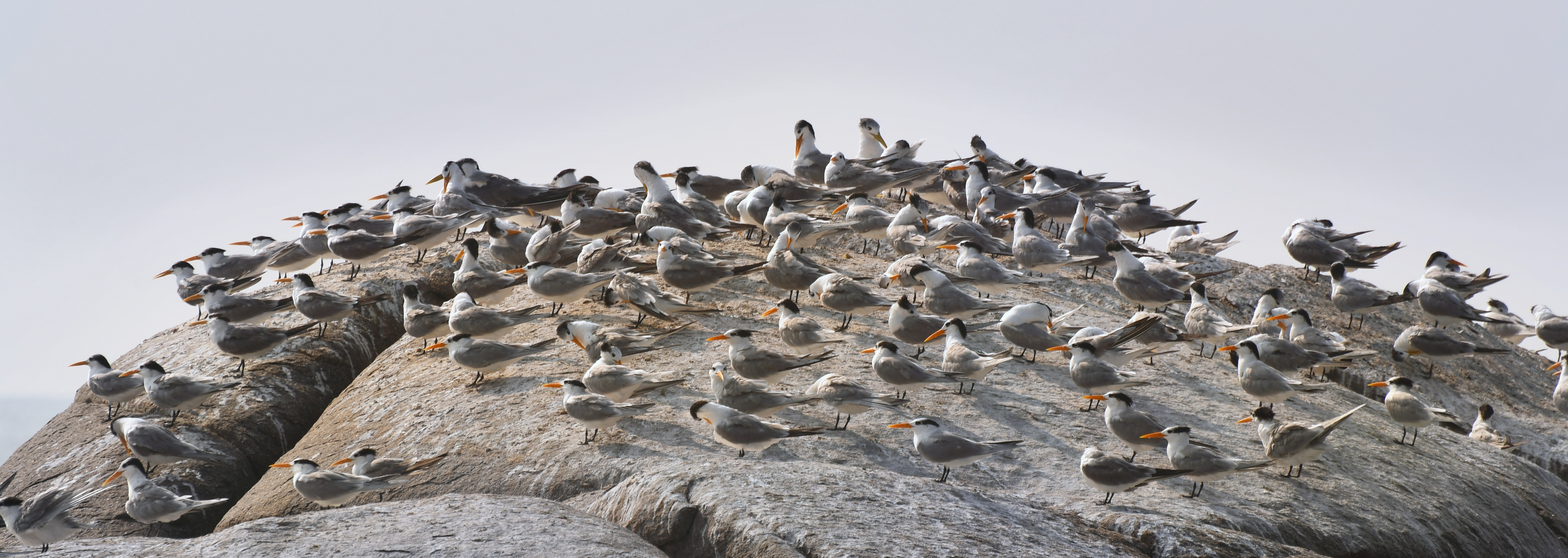 The lesser crested tern (Thalasseus bengalensis)[2] is a tern in the family, Laridae.